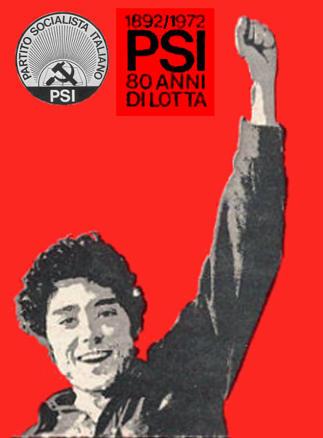 Personal card of affiliation to the Italian Socialist party for year 1972. Side B is not provided since it reports personal data, the name preceded by "Rilasciata al compagno", issued to comrade. Scan + Gimp retouch, increased contrast in some parts, better saturation of some blacks and the red of the background.